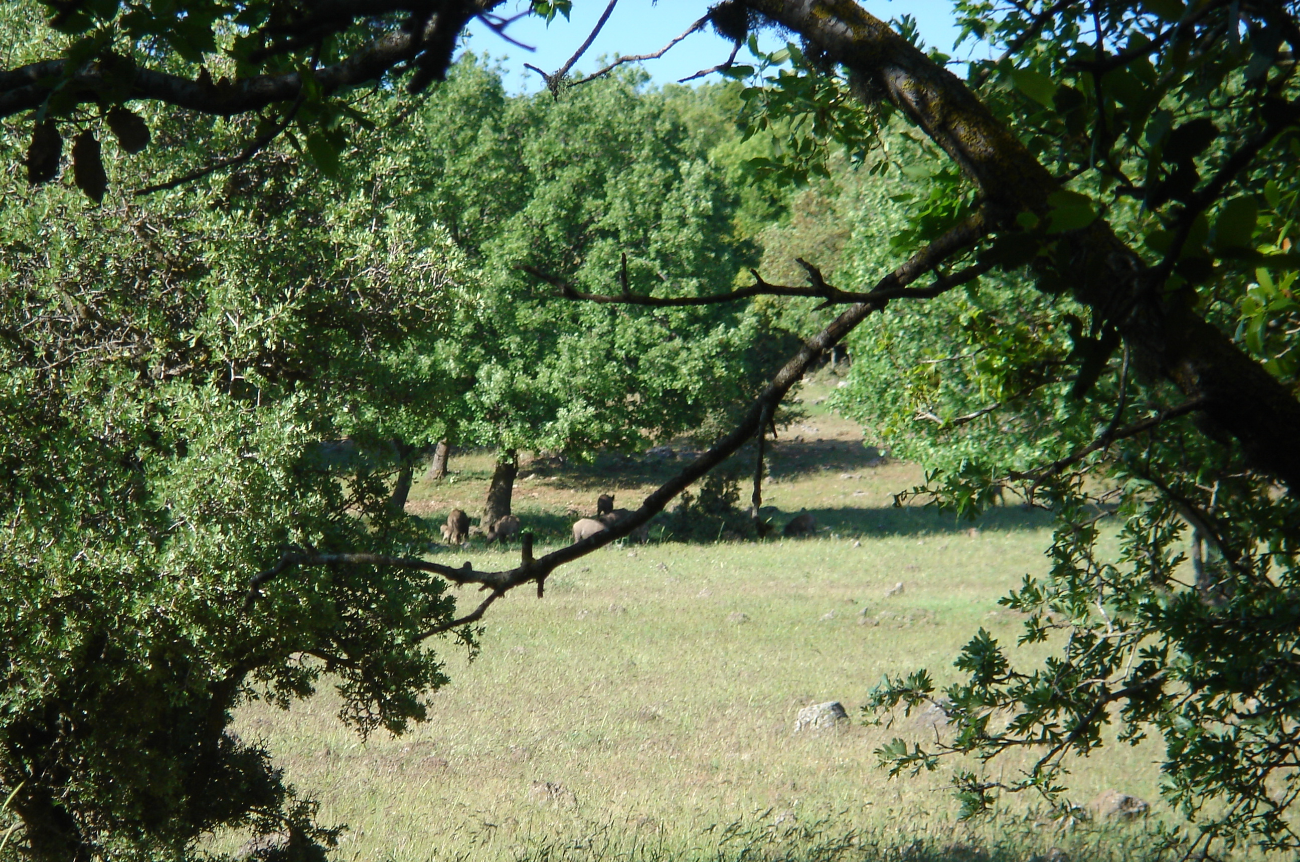 Wild boars running away at Odem Forest Reserve in the northern Golan Heights.